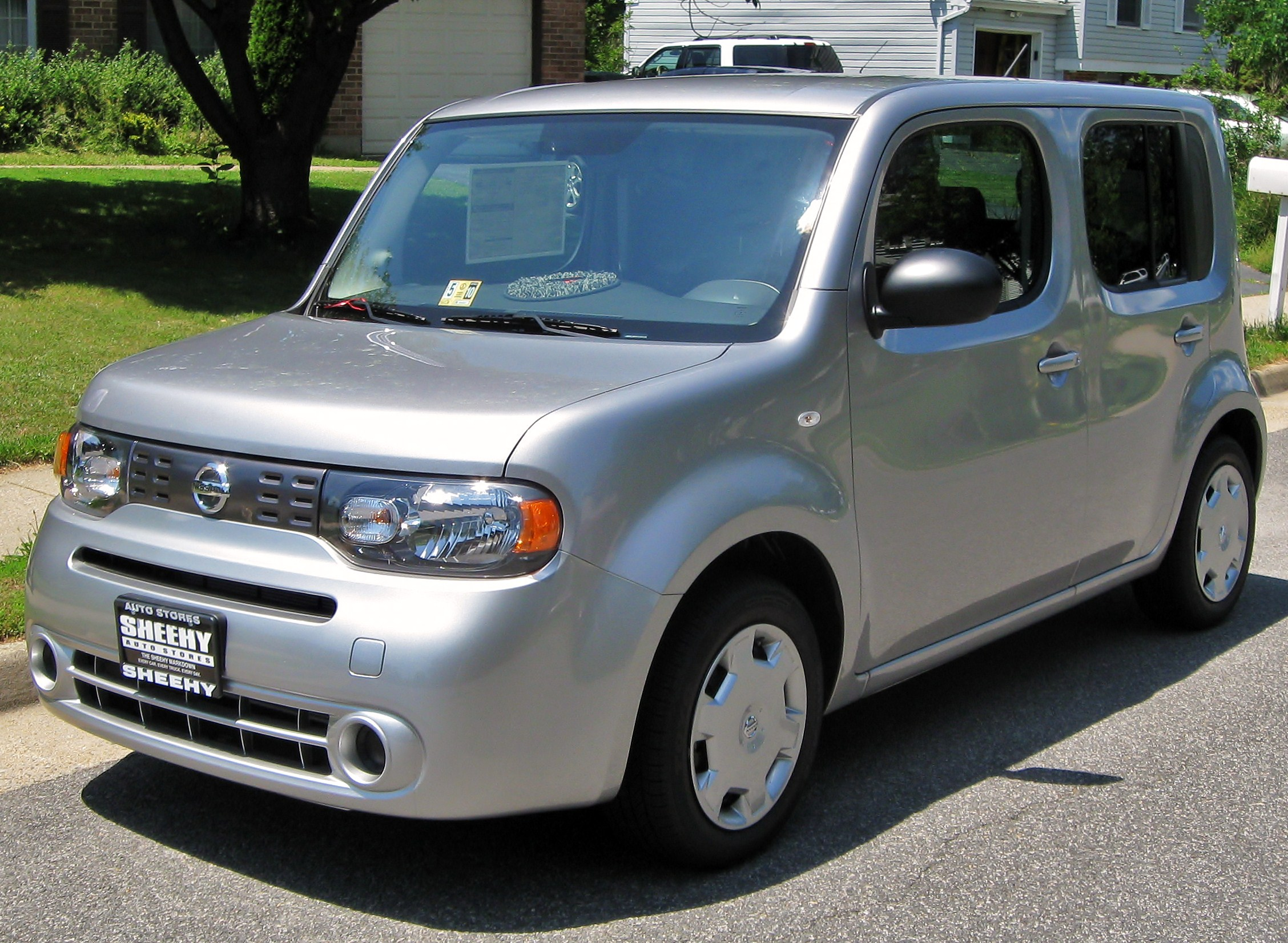 2009 Nissan Cube photographed in Springfield, Virginia, USA.